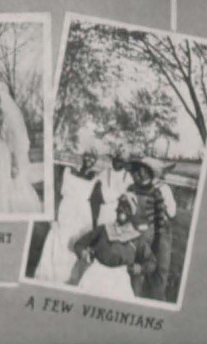 Hollins University yearbook The Spinster (1915)